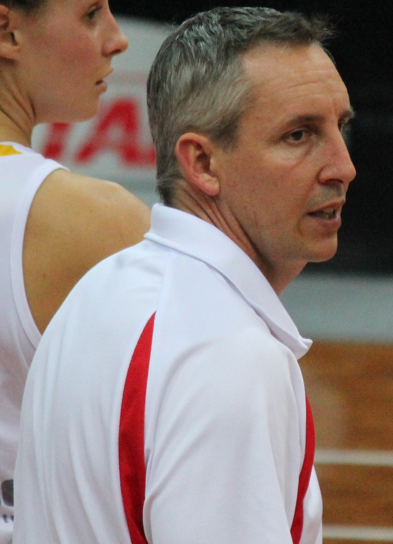 Canberra Capitals versus the Adelaide Lighting at the AIS Arena on 9 November 2012.